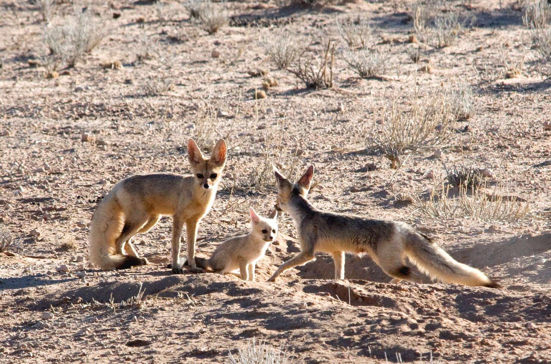 Cape Fox (Vulpes chama), Namibia